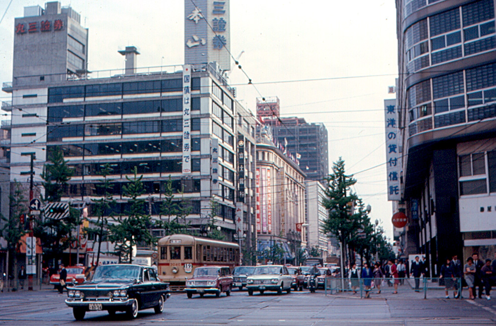 Chuo Dori, one of Tokyo's main streets, wth department stores.